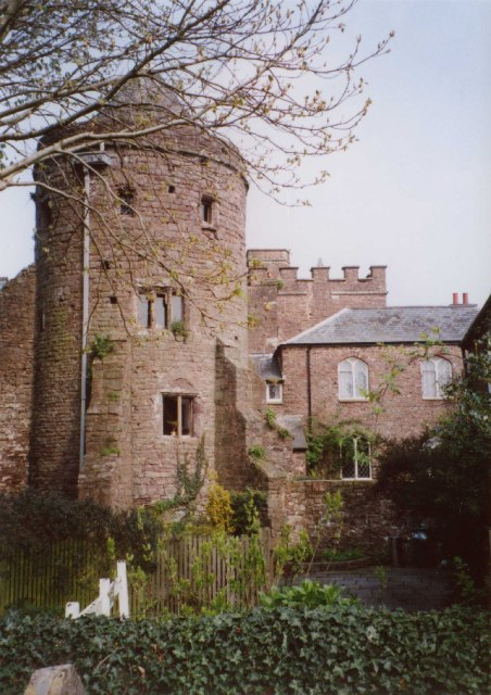 Tiverton Castle - The south-east tower. Behind this round tower the castellations of the mighty medieval gatehouse can be seen, facing the Castle courtyard. On the far side of this is a Tudor mansion.